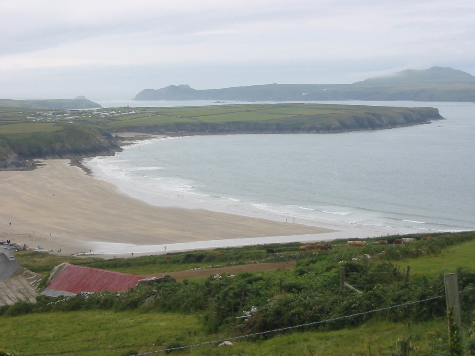 Ramsey Island, view from Sint-David's, Wales, UK